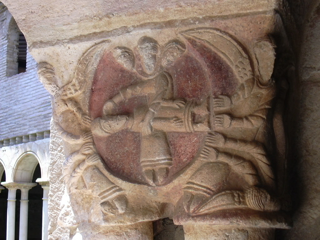 Romanesque capital in the cloister of the collegiate church in Alquézar.